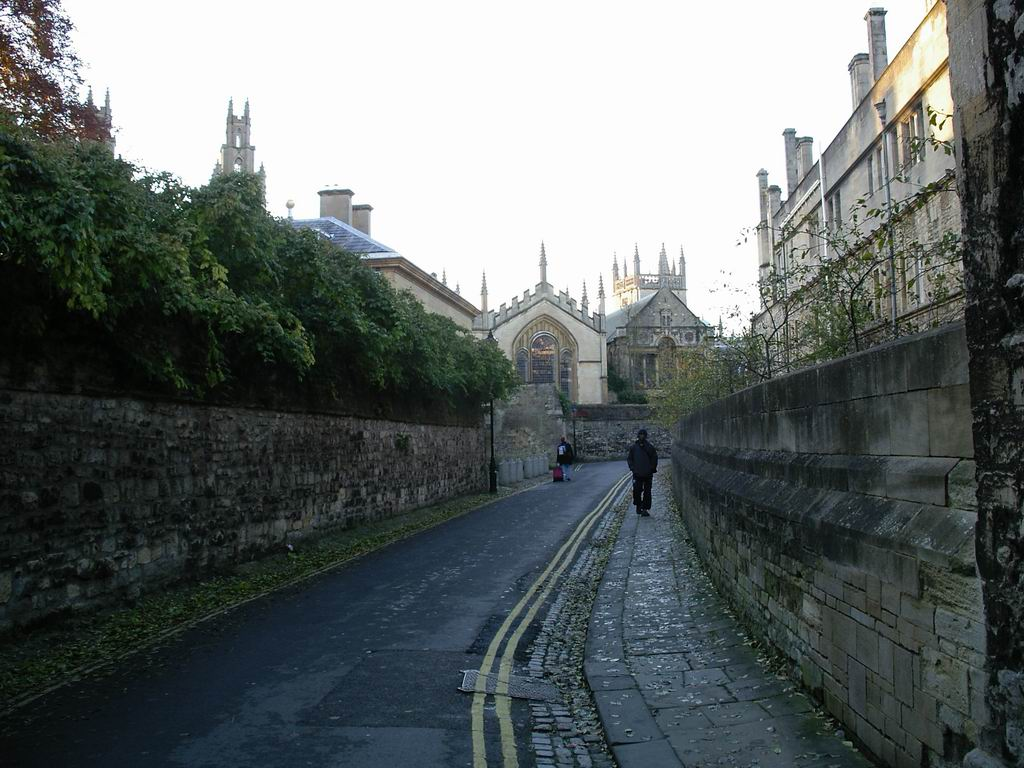 Picture of Queen's Lane in Oxford. Picture taken by myself.